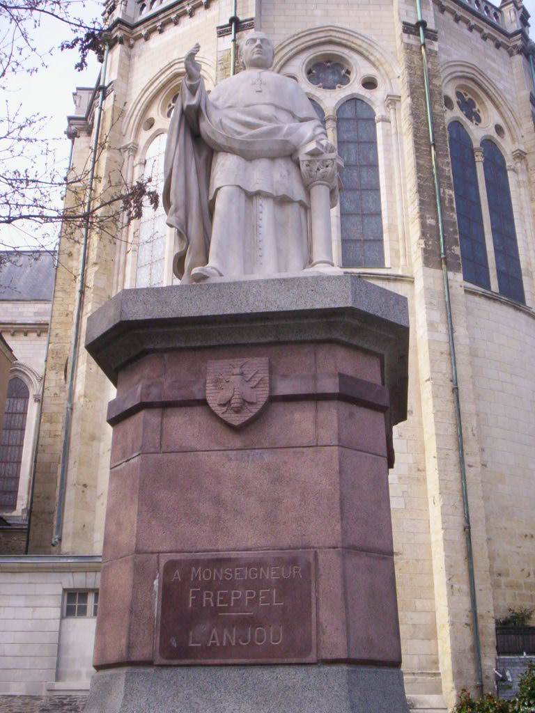 Statue of Charles-Émile Freppel in Angers, Maine-et-Loire, France.